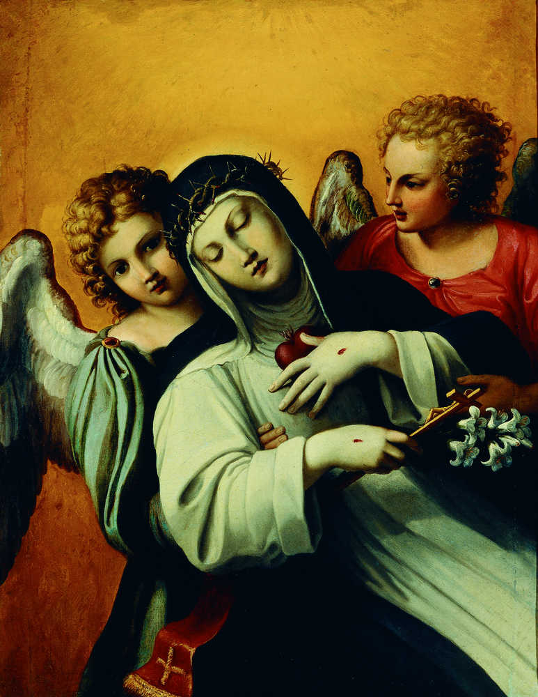 The Ecstasy of Saint Catherine of Siena Galleria Borghese, Rome, Italy